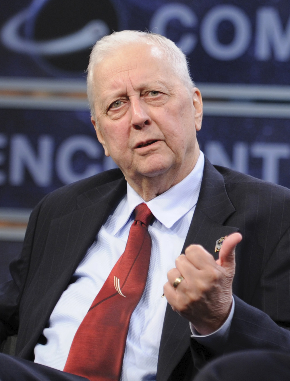 Robert W. Farquhar at a 2010 symposium commemorating 25 years of comet discoveries